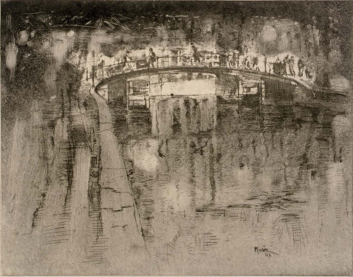 Bridge over a Canal, Amsterdam